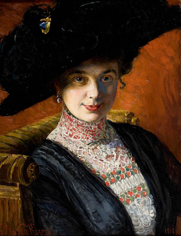 Portrait of Mrs J.